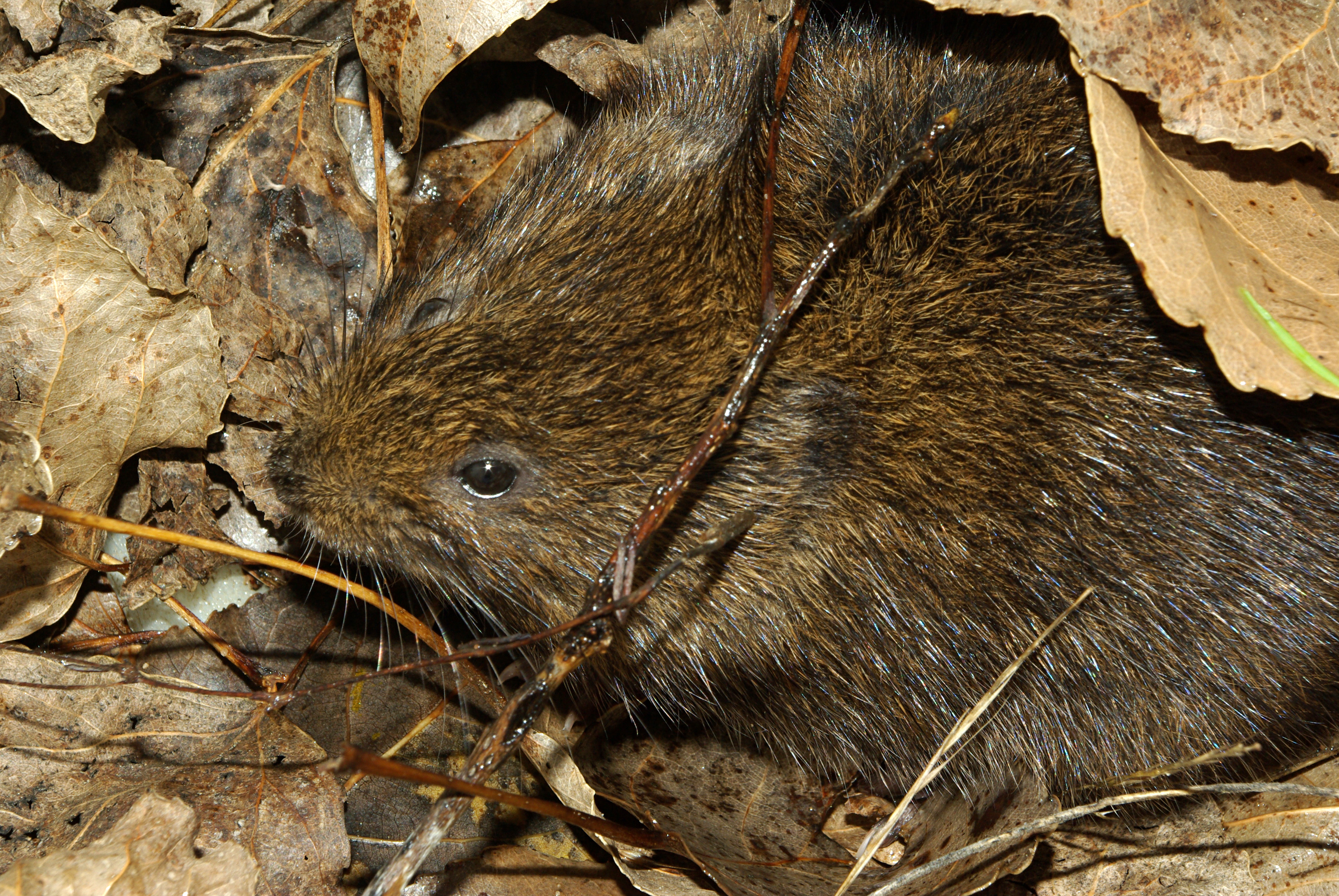 Southwestern Water Vole (Arvicola sapidus). River Porma, near Boñar (León, Spain).